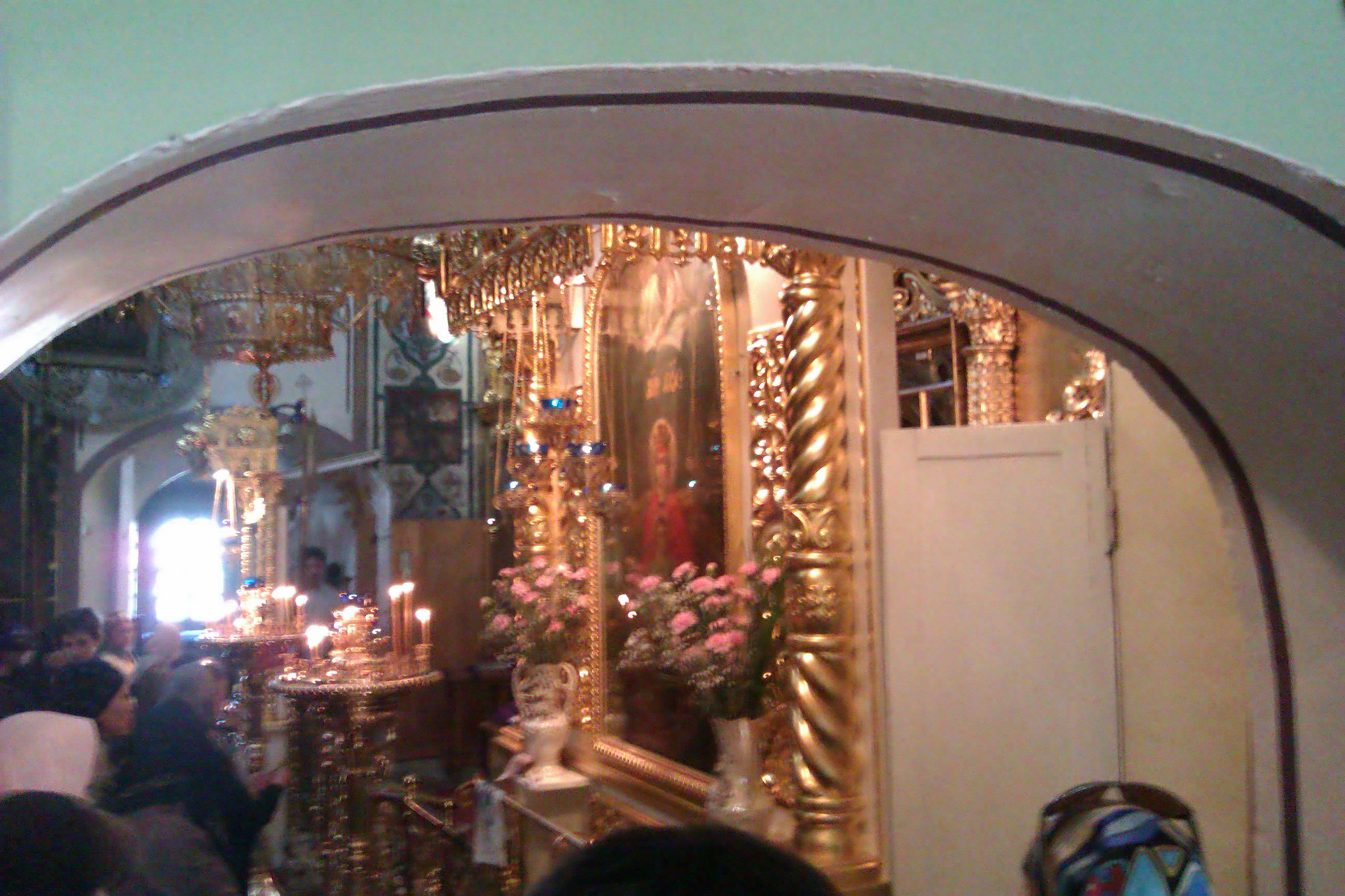 Theotokos Derzhavnaya in May 2013